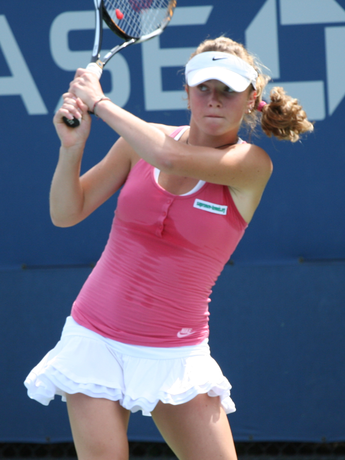 U.S. Open Juniors Monday, Sept. 7, 2009